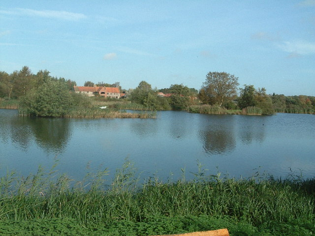 Pensthorpe Waterfowl Park: Across the lakes Looking across one of the many lakes at Pensthorpe Waterfowl Park towards the centre's buildings.